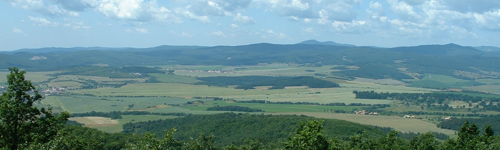 viewview from Javorie to Štiavnické vrchy over Pliešovská Kotlina